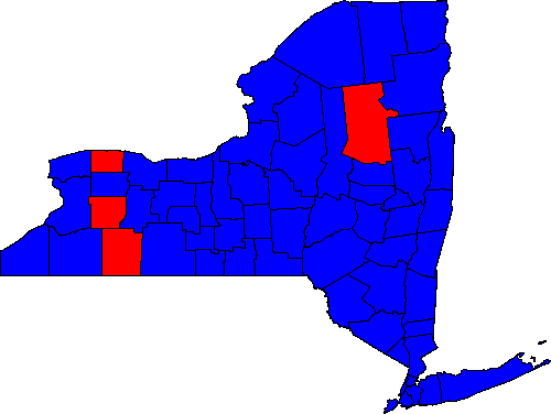 Image showing county-by-county results of the 2006 gubernatorial election in New York, country results taken from New York State Board of Elections website